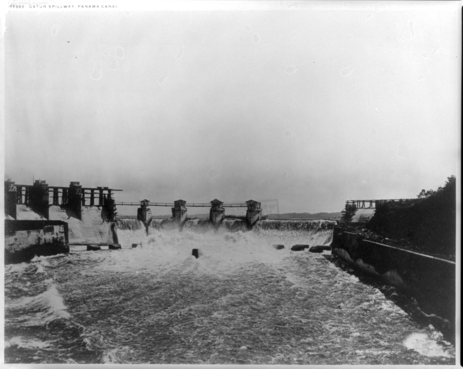 Title: Gatun spillway, Panama Canal Abstract/medium: 1 photographic print.